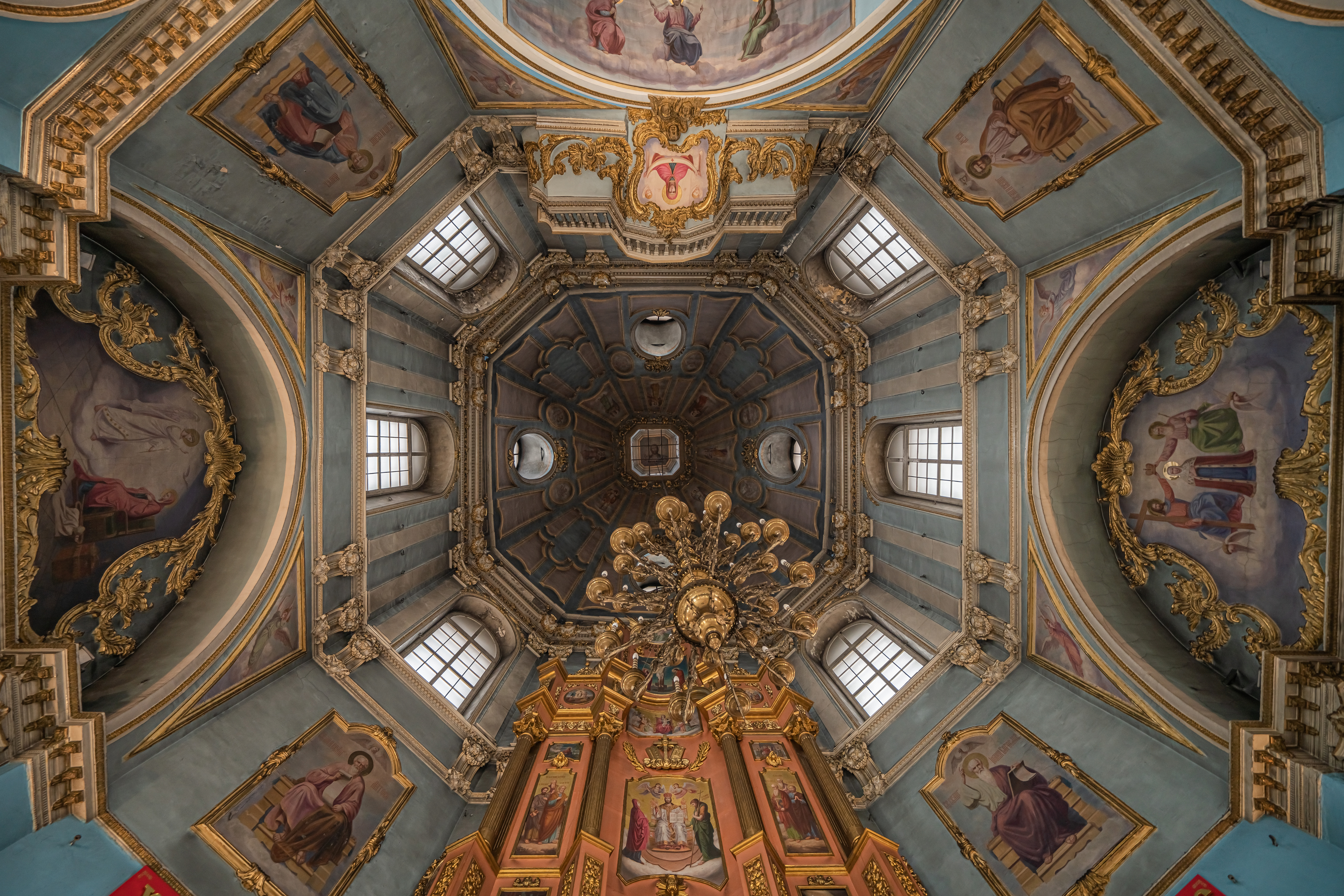 Interior of St. Nikita the Martyr Church at Basmannaya in Moscow, Russia